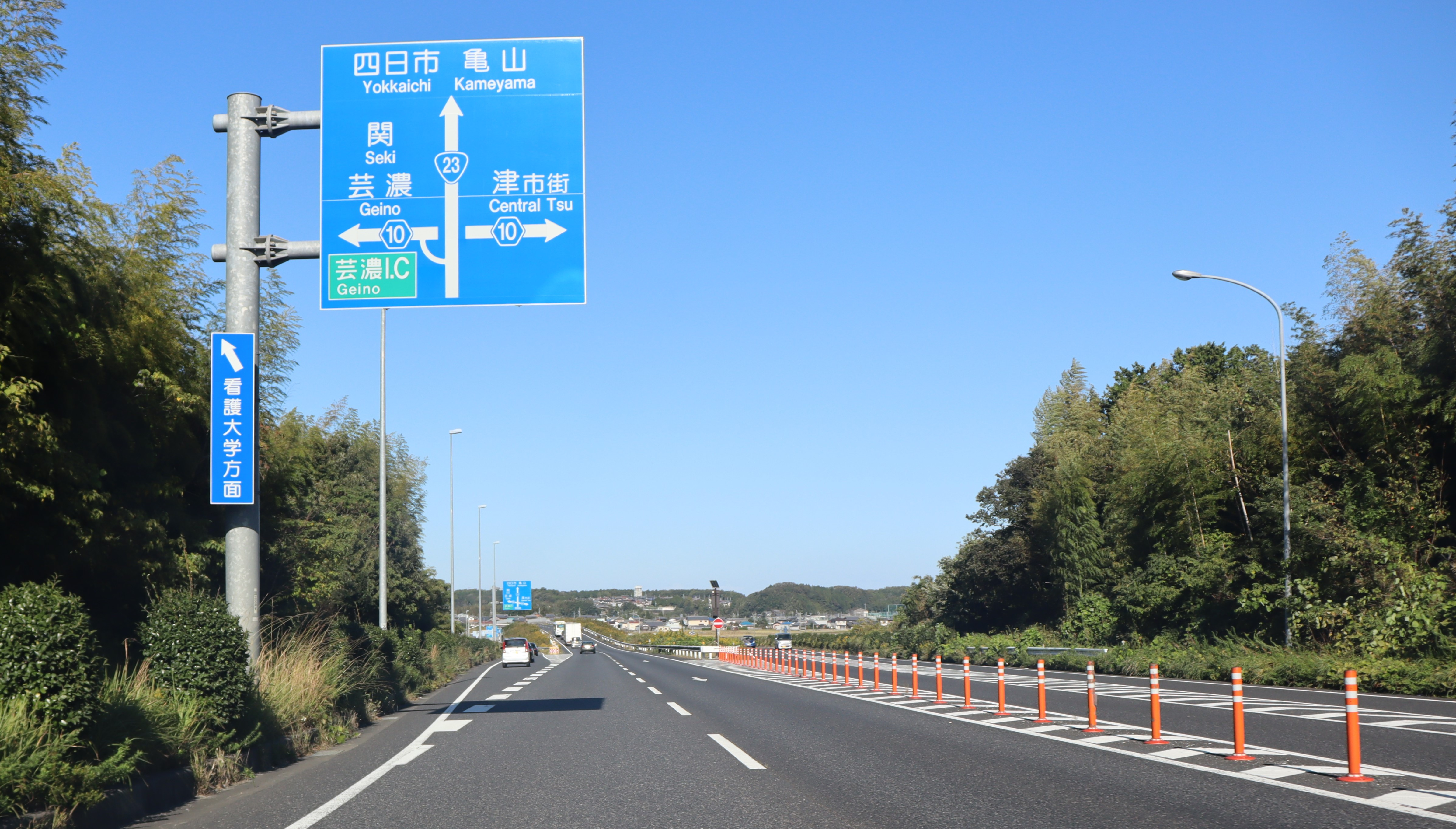 Route 23 and Mie Prefectural Road Route 10 in Ozatokubotacho, Tsu, Mie Prefecture, Japan.